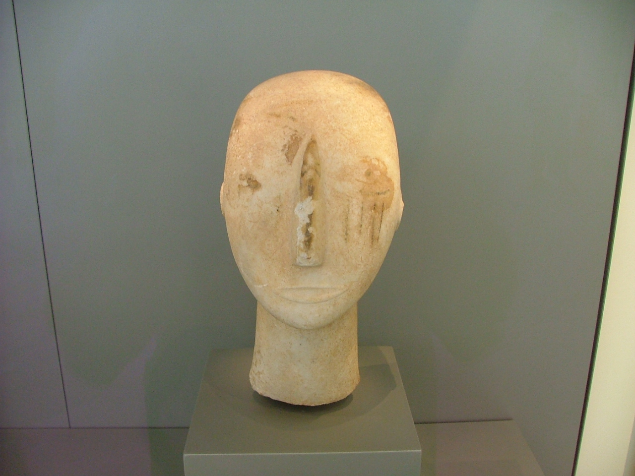 Head of a cycladic statue. Parian marble. Found on Amorgos. Early cycladic II period, Keros-Syros culture (2800-2300 BC)